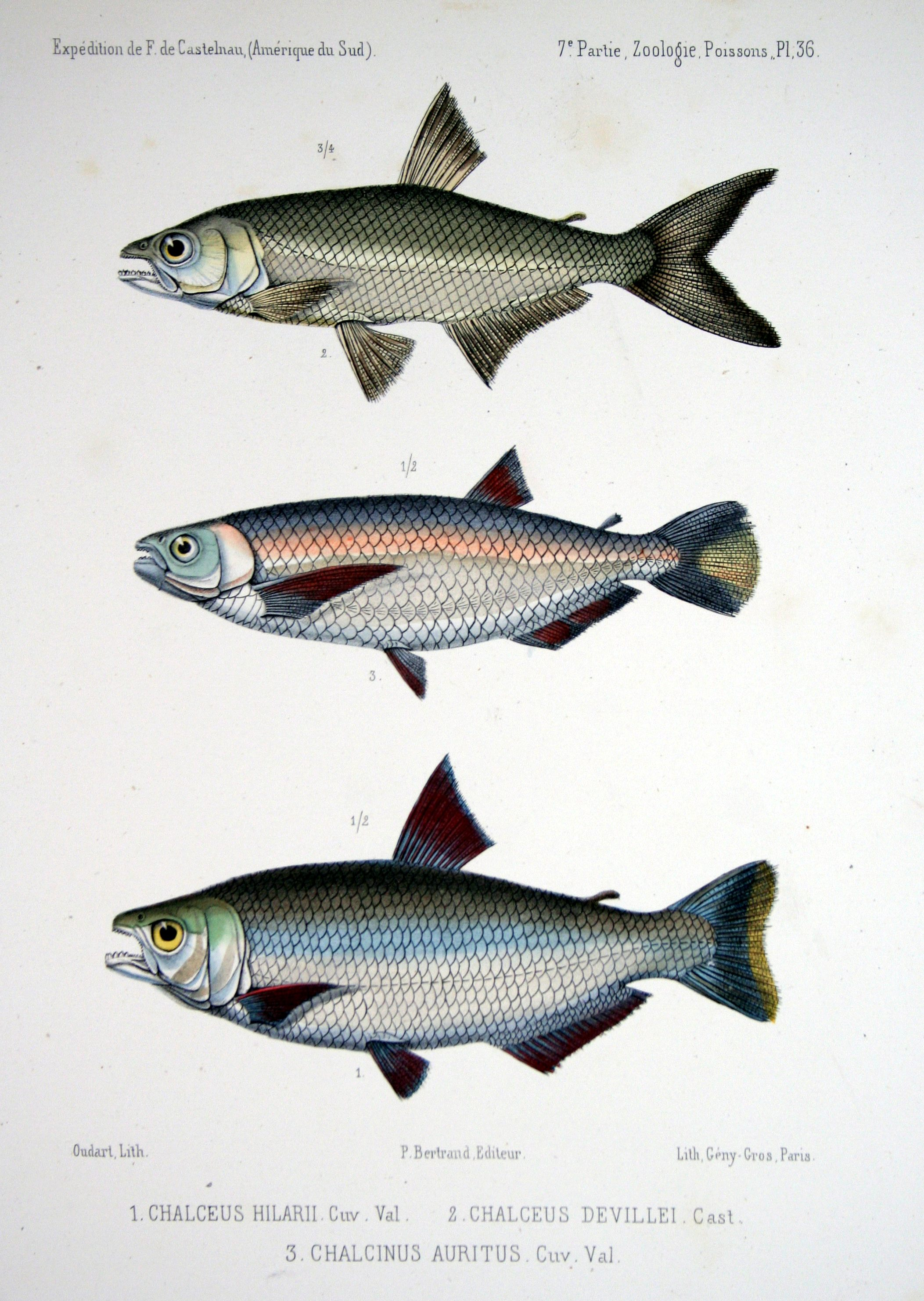 From top to bottom: Chalceus devillei = Brycon devillei Chalcinus auritus = Triportheus auritus Chalceus hilarii = Brycon hilarii